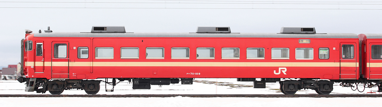 JR Hokkaido's type Kuha 711-100 ( Minenobu Stn. n Koushunai Stn. )